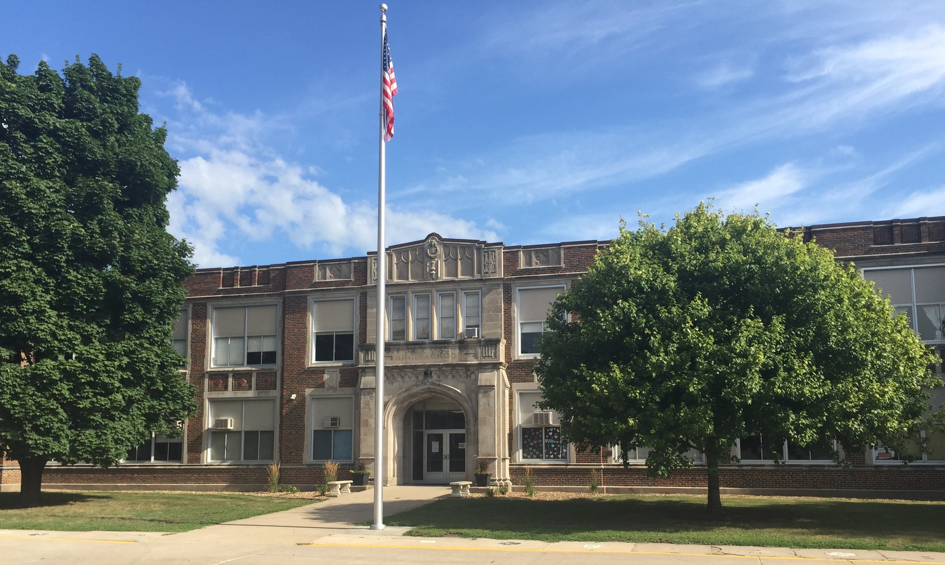 Iowa Valley Jr-Sr High School front facade